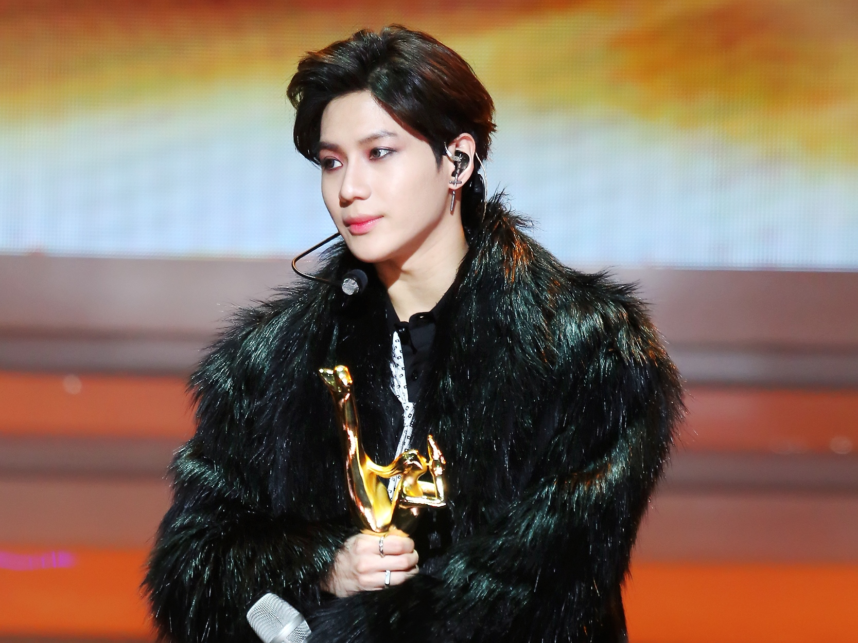 Taemin at the Golden Disk Awards on January 15, 2015.